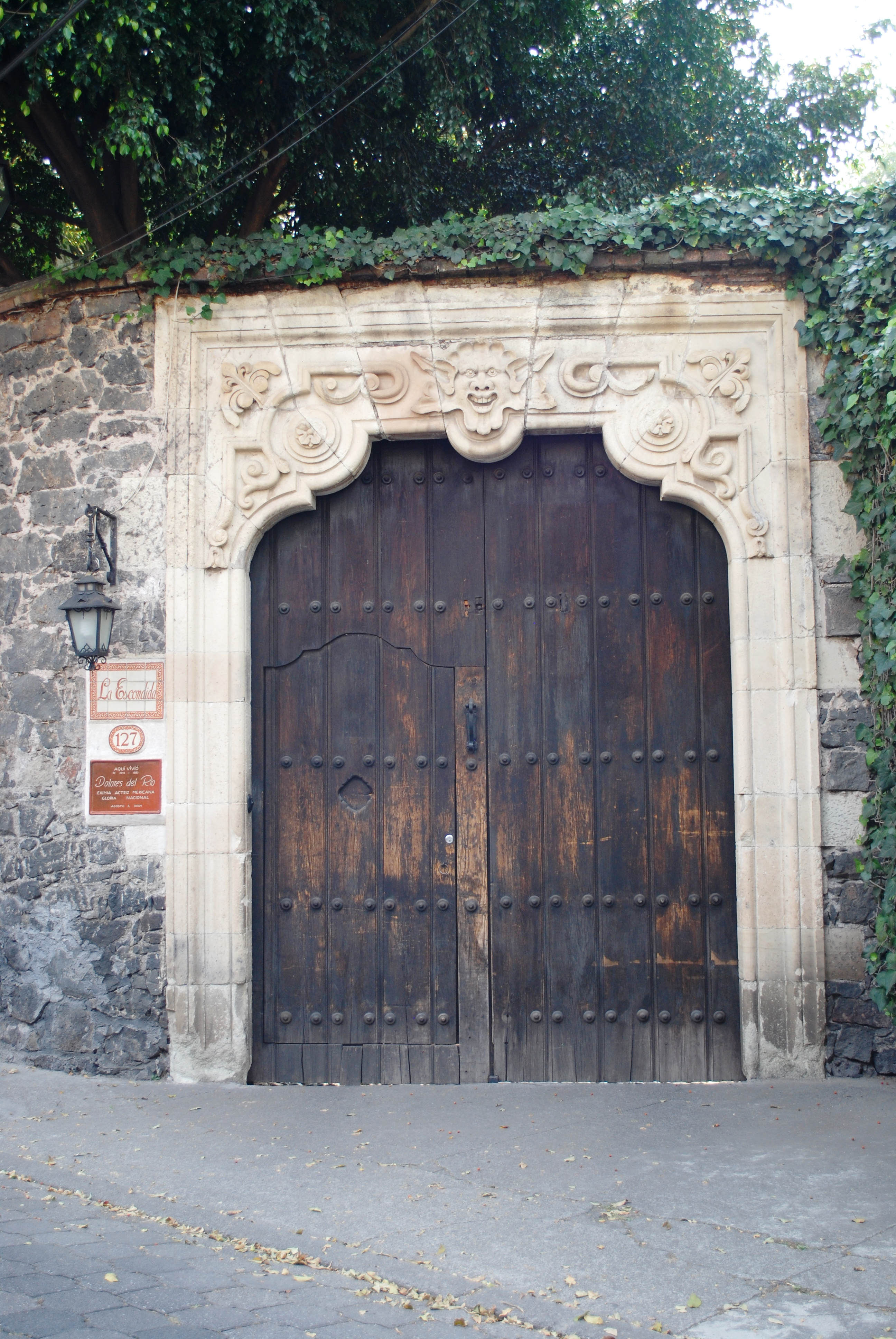 Main gate to the former home of Dolores del Rio in Coyoacan, Mexico City